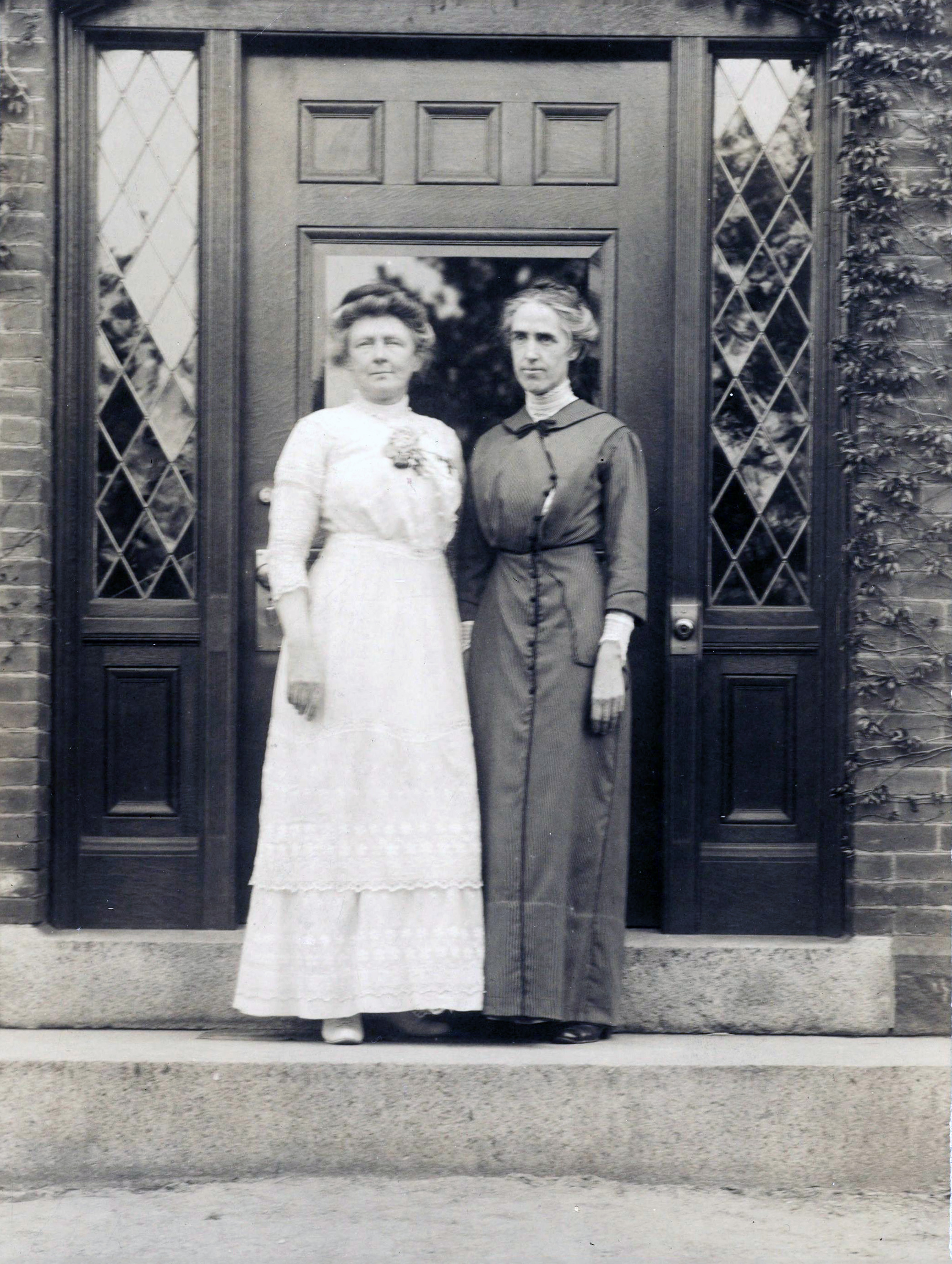 Annie Jump Cannon and Henrietta Swan Leavitt